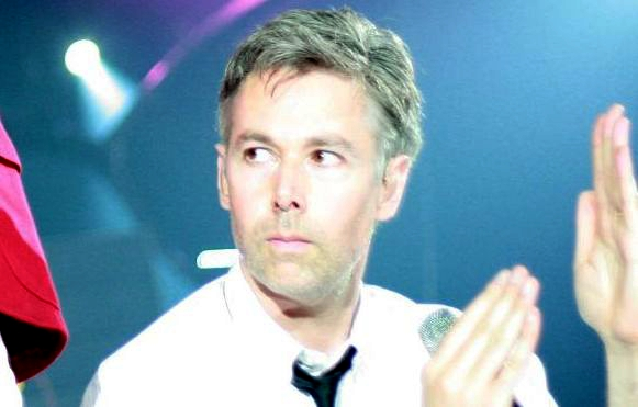 Mike D, Adrock, MCA of the Beastie Boys in Barcelone 07